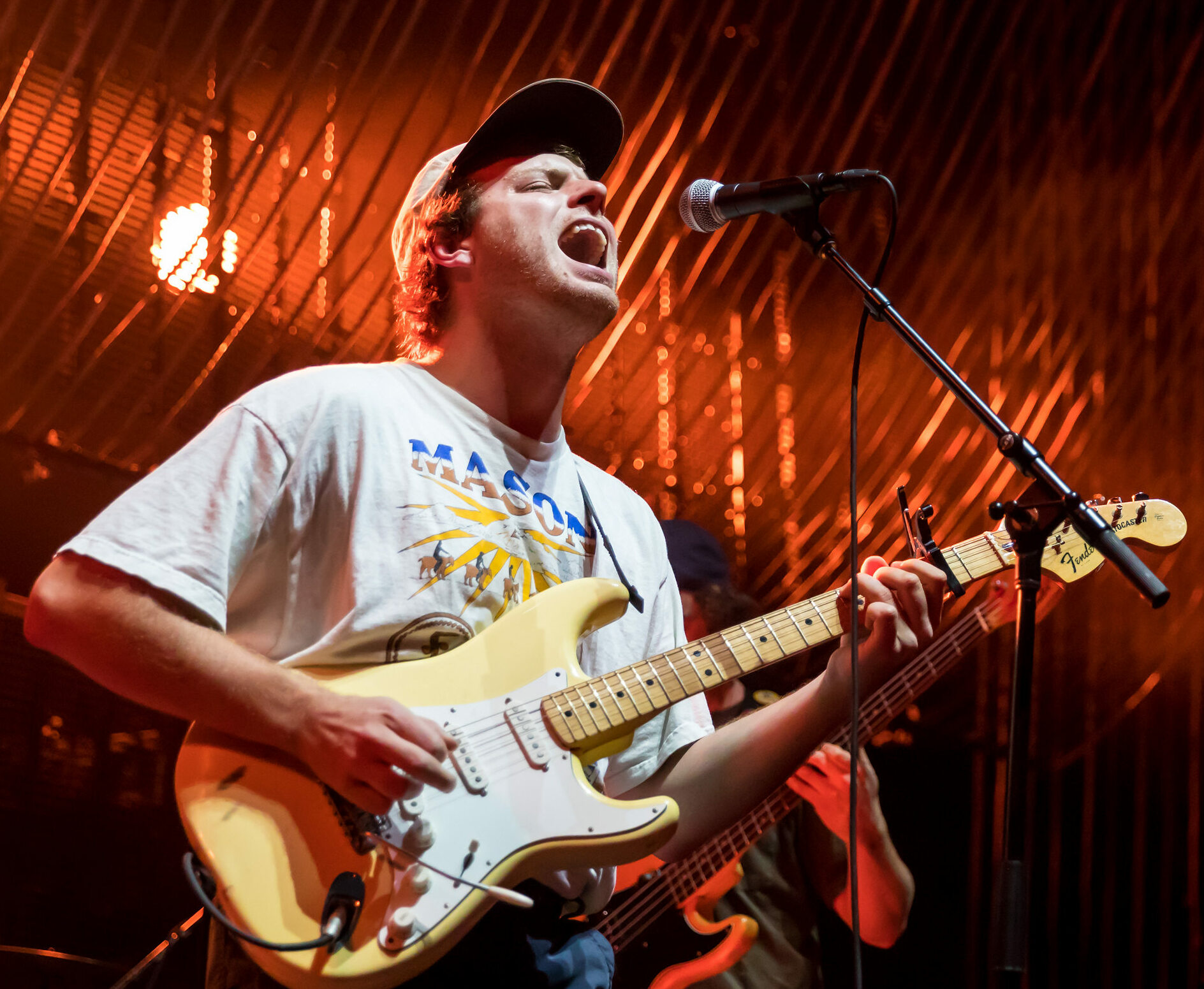 Mac DeMarco performing at ACL Live in Austin, Texas on October 1, 2017.